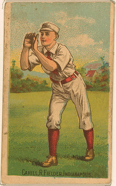 Baseball card of John Cahill.